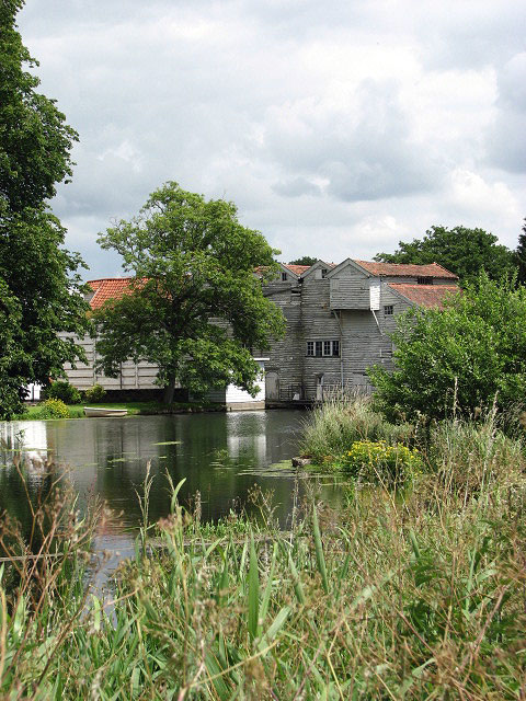 Burgh Mill Burgh Mill, timber-framed and weather-boarded, is the possibly oldest mill in the country; it was recorded in the Domesday book in 1085, and a brick built mill was erected in the 1500s, which was further enlarged in the 1790s. Parts of the brick section still remain, incorporated into the new structure, and some of the timbers bear ancient markings. The roof design is unusual in that it has five distinct gables on the western upstream side and six on the eastern downstream side.